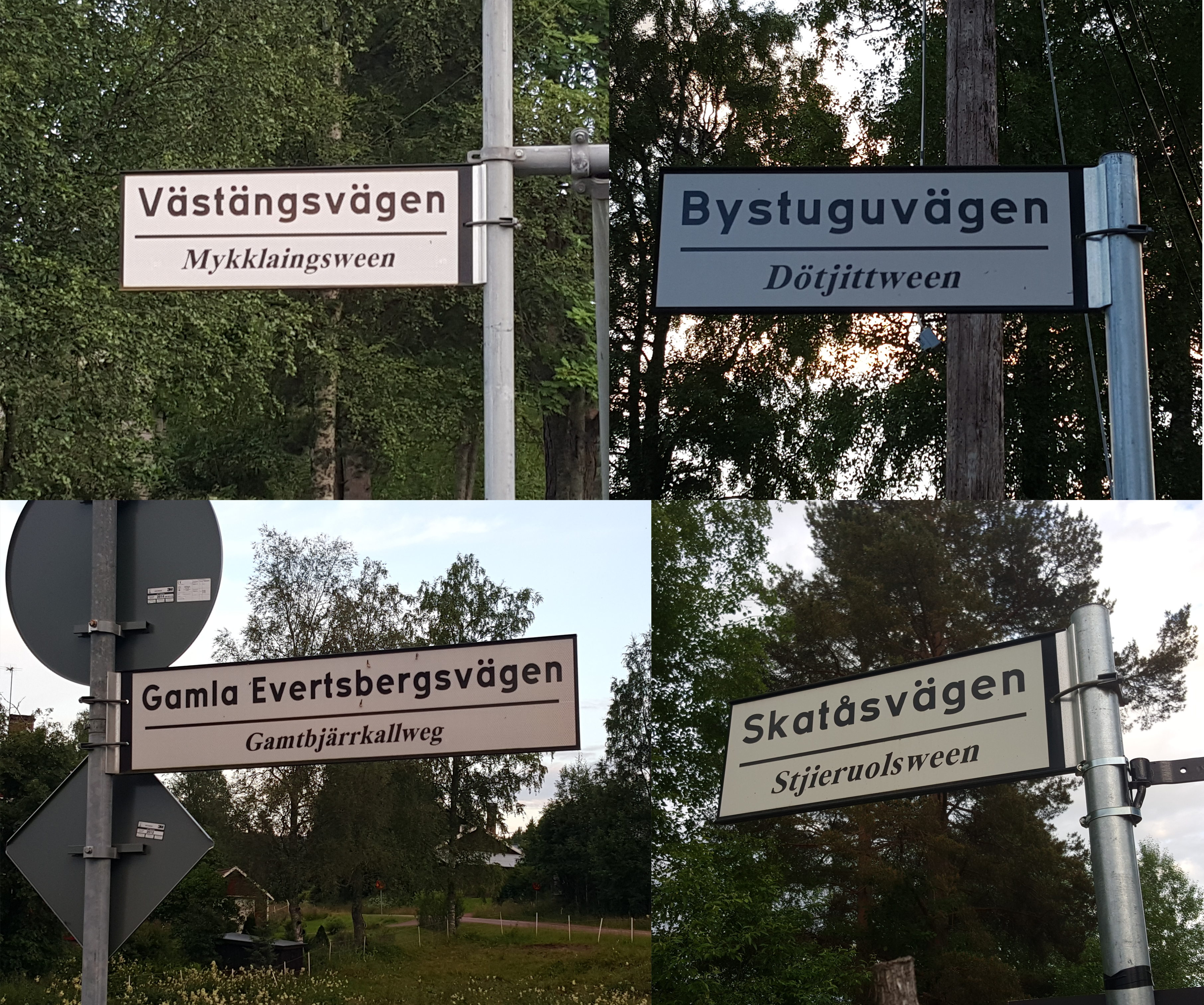 Bilingual road signs in Älvdalen parish, Sweden, in Swedish and Övdalian.